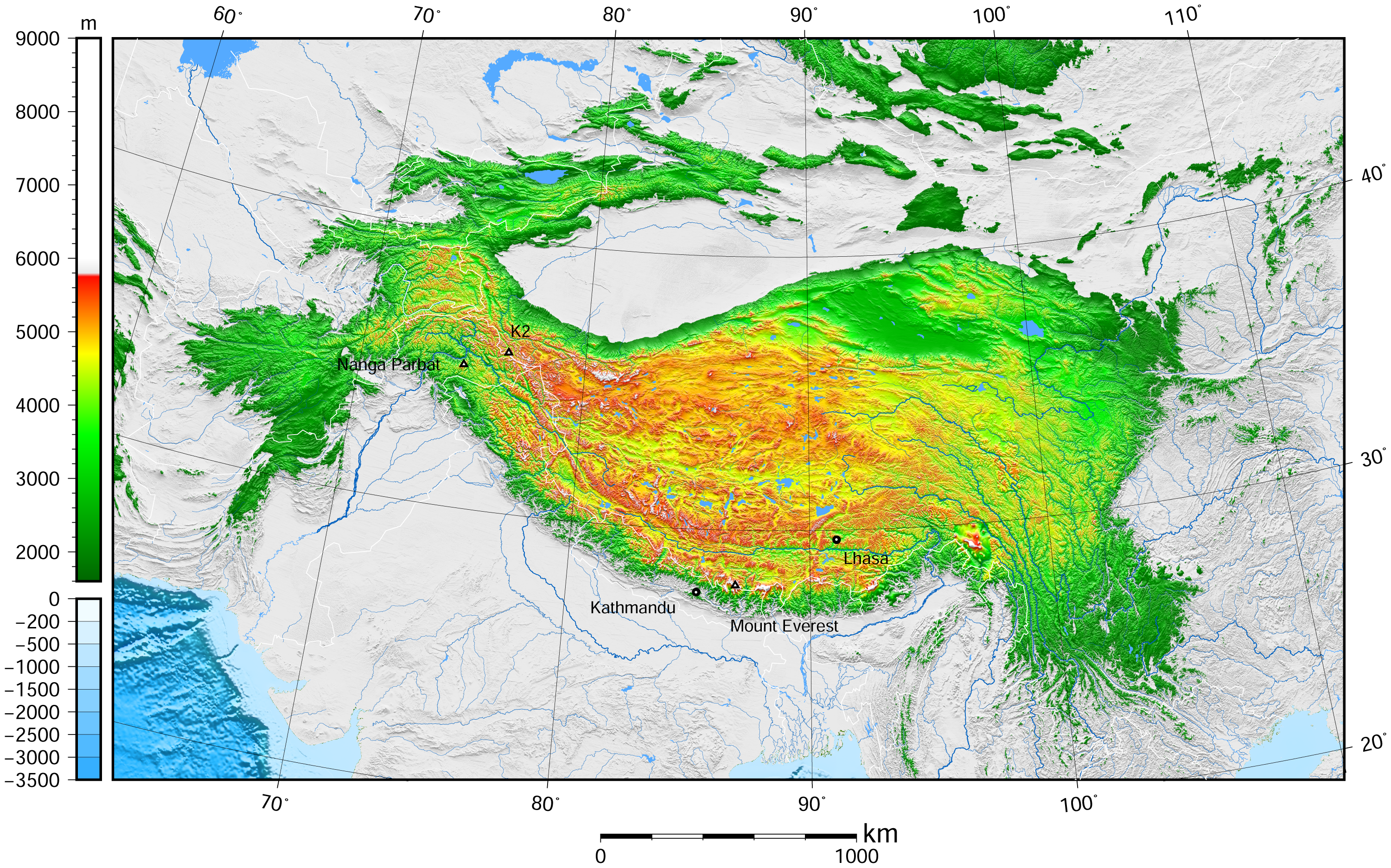 Tibet and surrounding areas above 1600 m. topographic map. The map was created using the Generic Mapping Tools, GMT, version 5.1.2.